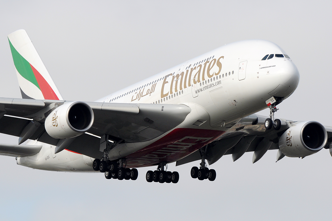 Emirates A380 landing at London Heathrow airport